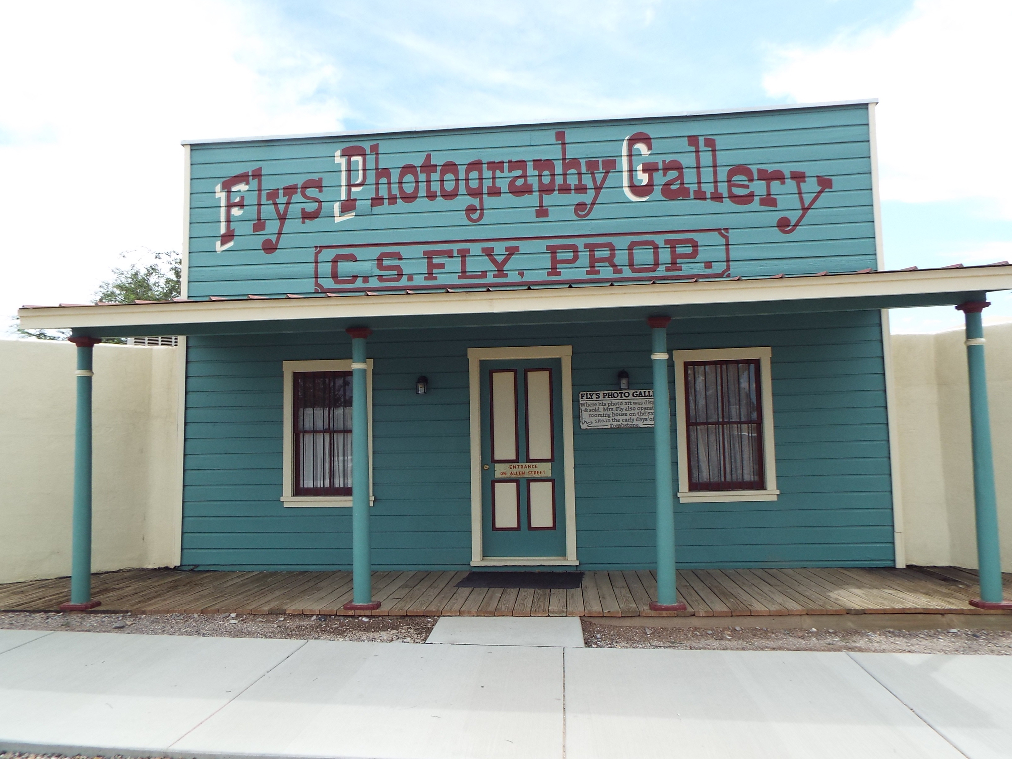 The structure was built in 1880 and is located at 109 S. 4th Street. The building was listed in the National Register of Historic Places on October 15, 1966, as part of the Tombstone Historic District, reference #66000171. in Tombstone, Arizona.